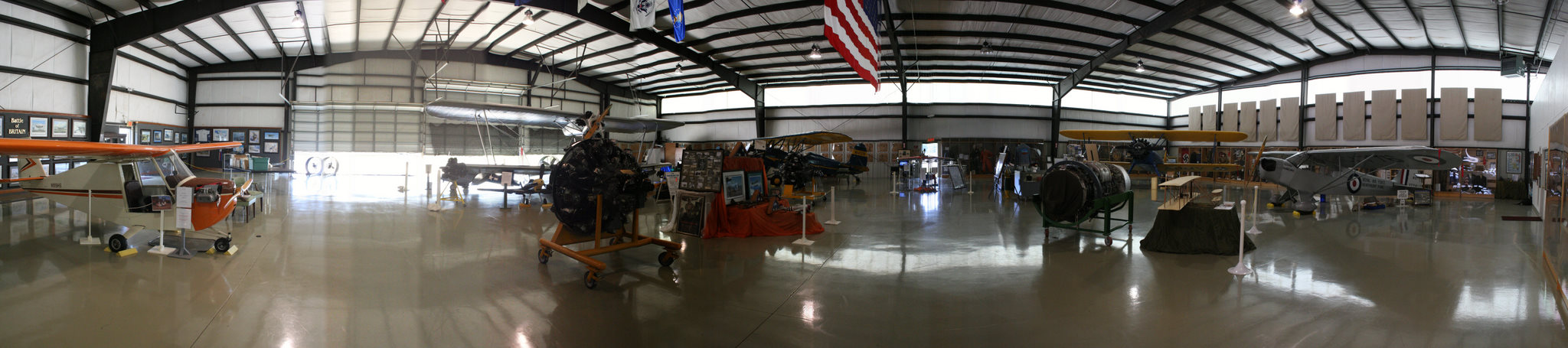 panorama of hanger 1 at the North Carolina Aviation Museum